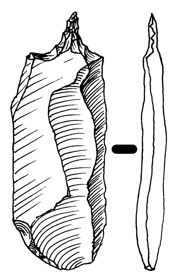 Stone drill on lithic blade